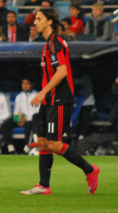 Ibra playing for AC Milan